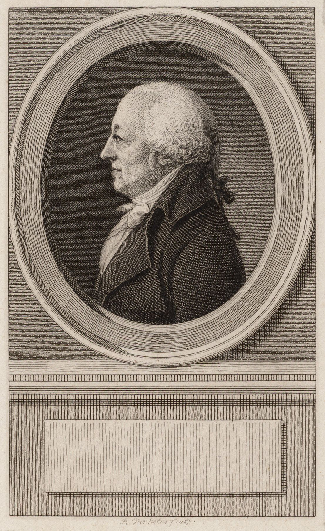 Henricus Aeneae, engraving